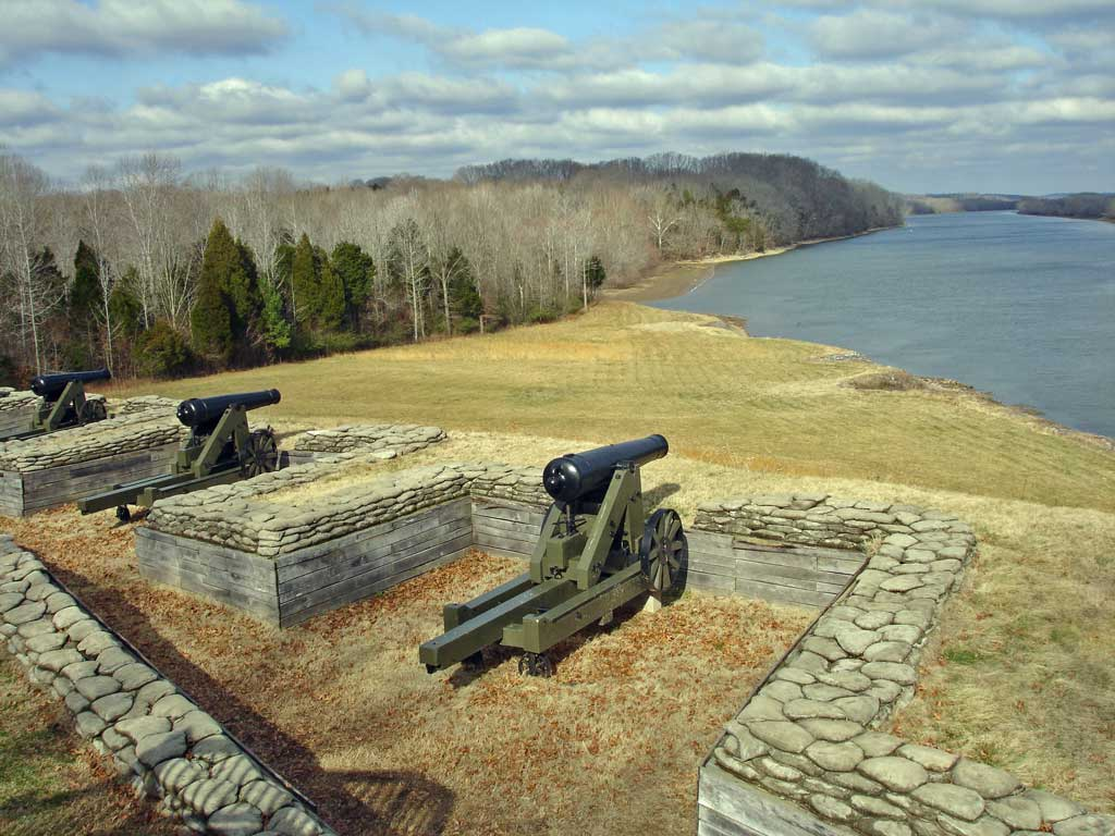 Part of the lower river battery, overlooking the Cumberland River. Photographed by Hal Jespersen at Fort Donelson, February 2006.